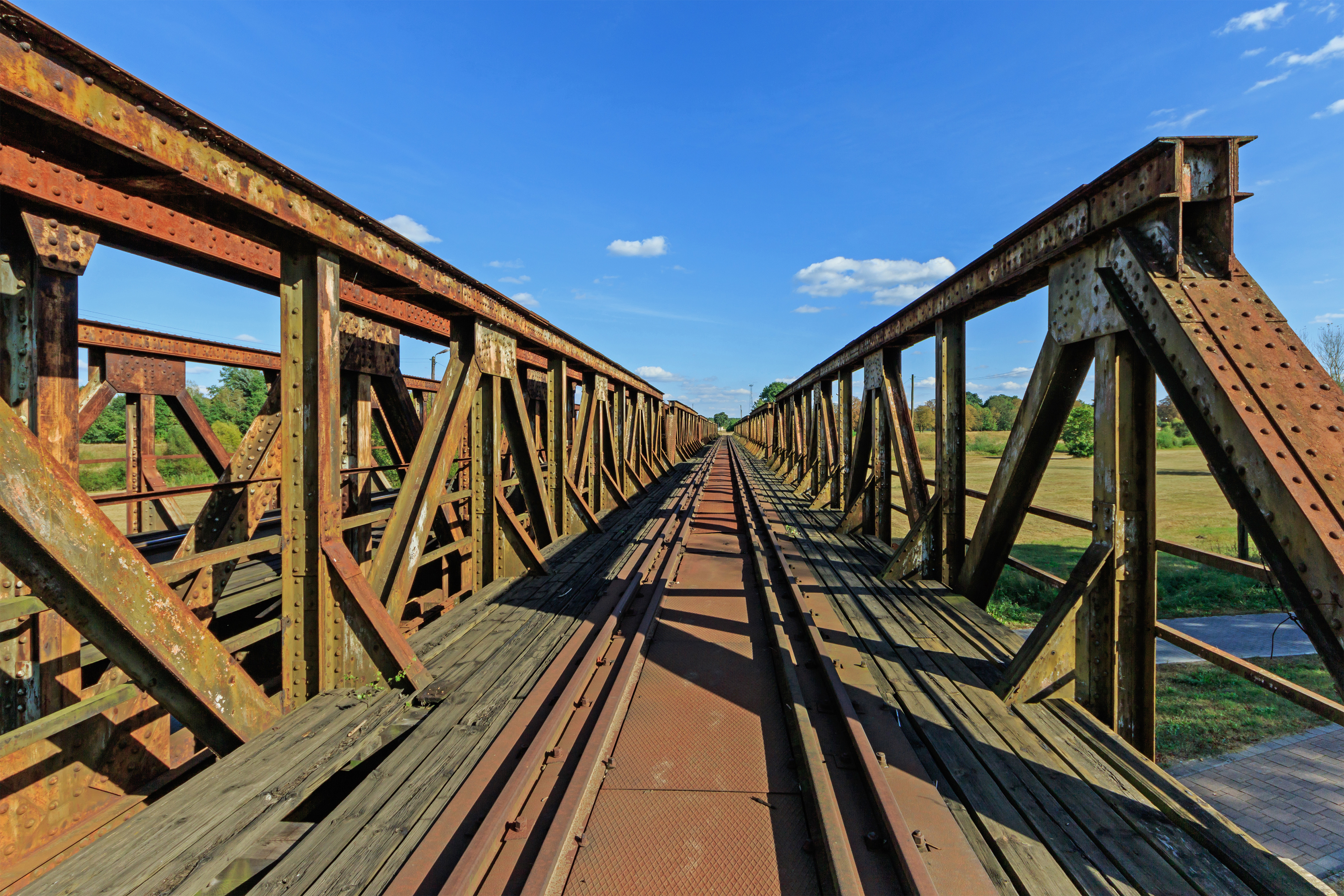 Railway bridge in Forst (Lausitz), Brandenburg, Germany